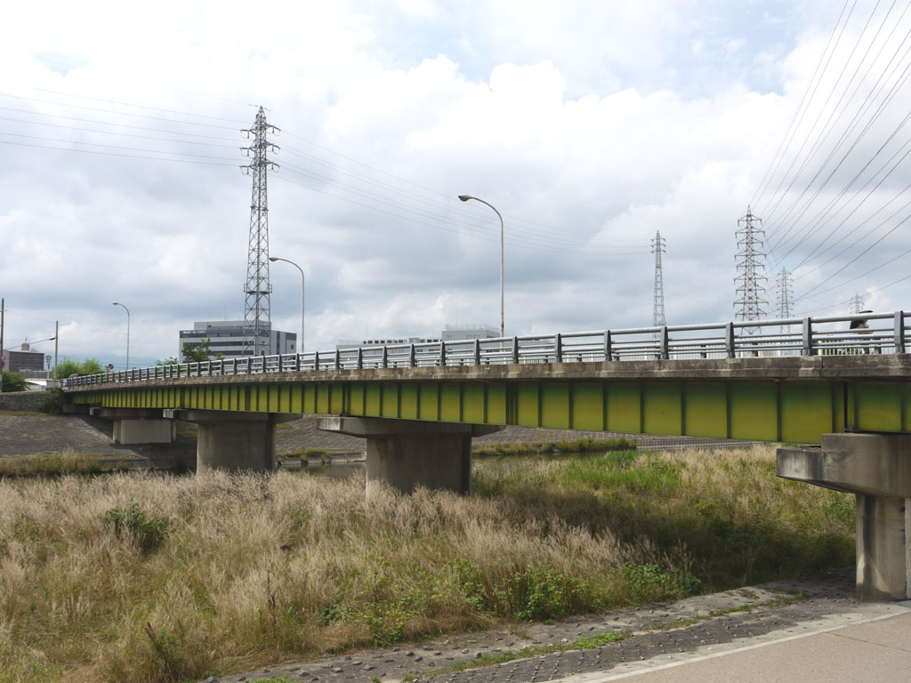 Kuinabashi-Bridge,Kyoto